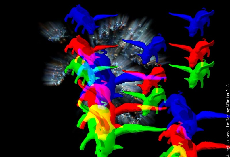 Pigs crisis, digital drawing 2010, by Tammy Mike Laufer